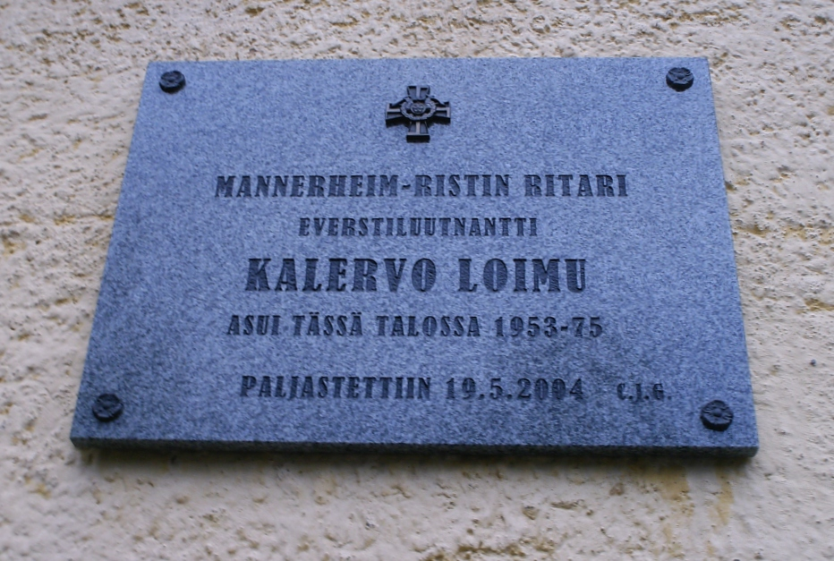 Plaque for the Finnish soldier Kalervo Loimu, Knight of the Mannerheim Cross, in Herttoniemi, Helsinki, Finland.